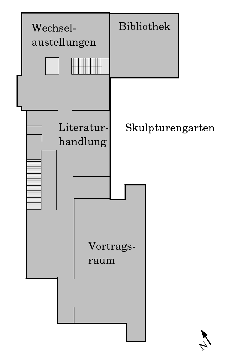 floor plan of the ground floor in the Jewish Museum Westphalia, Dorsten, Germany